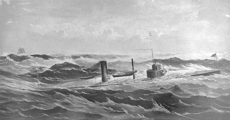 NHHC #NH60256 trimmed to delete caption. Identified there as an 1860s lithograph